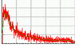 Graph to illustrate signal decay problem in O'Reilly v. Morse